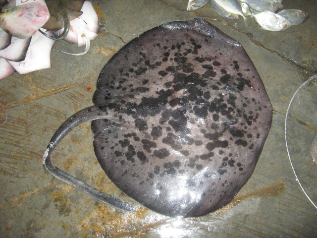 Taeniura meyeni